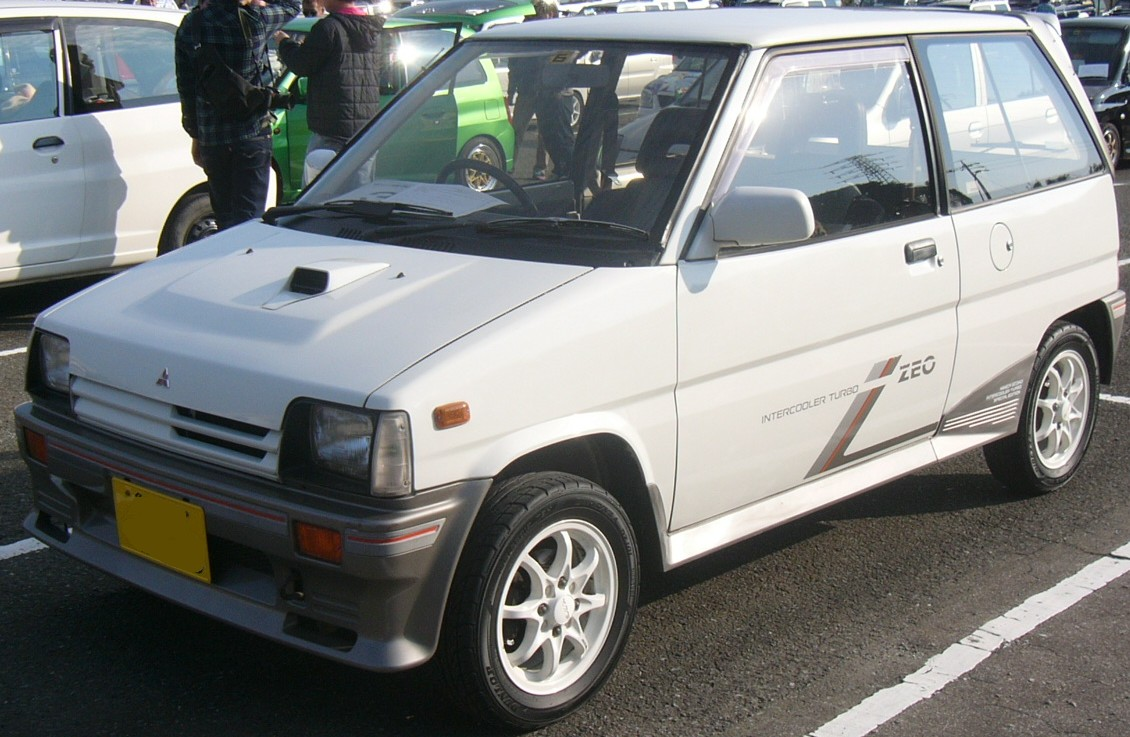 Mitsubishi Minica Econo ZEO(H14V). Taken in 2013 MMF Okazaki. It is from 1988 that corresponds to the final stage of the 550cc era in the K-car of Japan, a hot model sold only one year, the number of existing and very small.